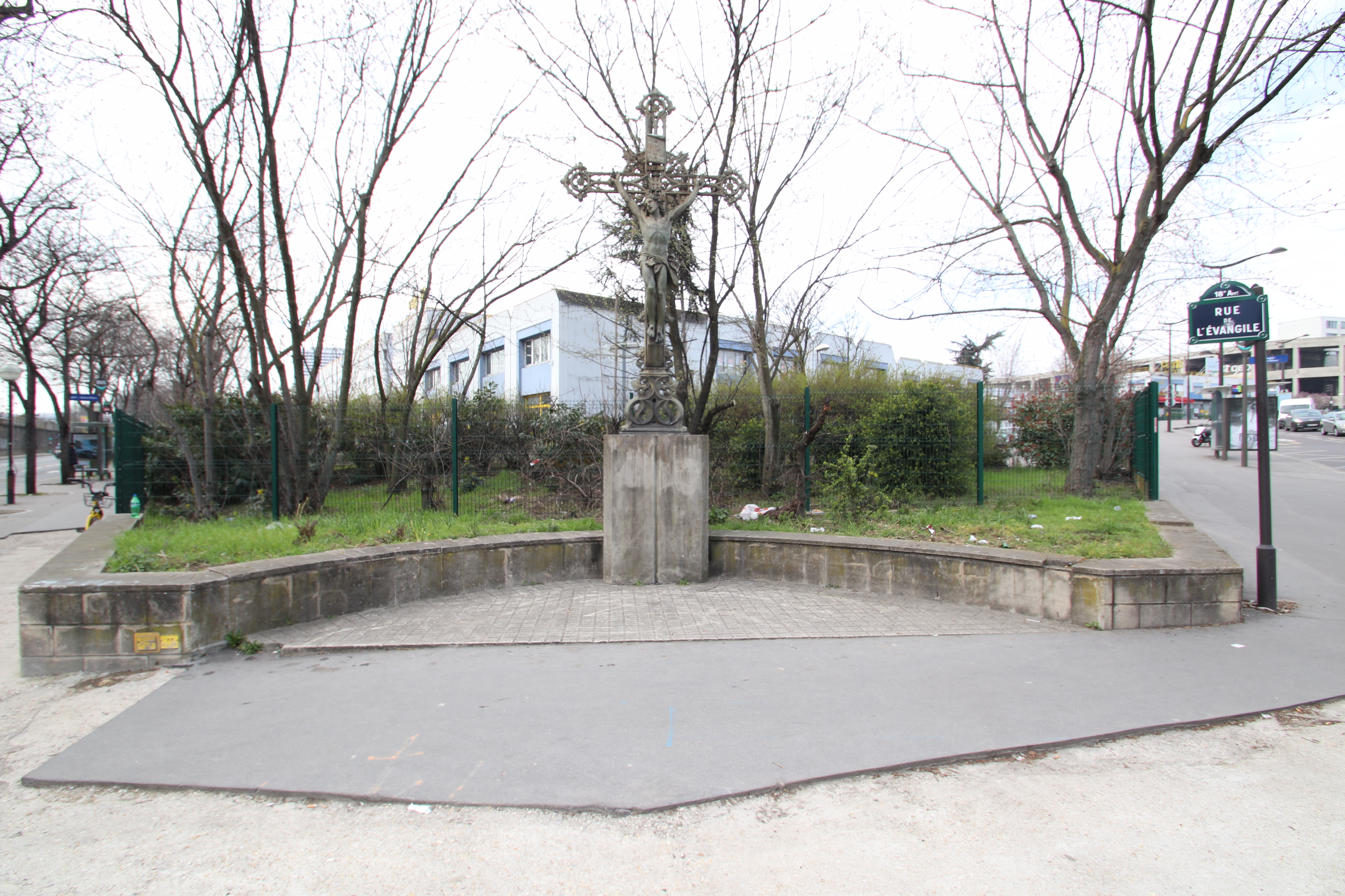 Croix de l'Évangile (Gospel Cross) at the crossroads of Évangile street and Aubervilliers street in Paris, France. Object location48° 53′ 44.74″ N, 2° 22′ 15.74″ E